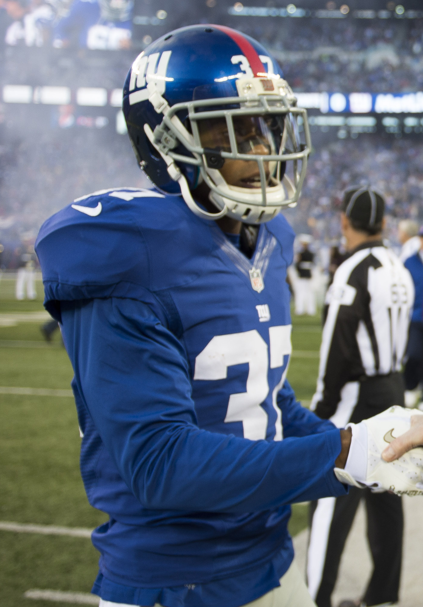 New York Giants cornerback Michael Coe greets Chief of Naval Operations Adm. Jonathan Greenert on the sidelines during a NFL military appreciation game at Metlife Stadium where the Giants hosted the Pittsburgh Steelers. The NFL chose November in conjunction with Veteran's Day to honor the military with their "Salute to Service" campaign, highlighting service members' contribution to our nation. (U.S. Navy photo by Mass Communication Specialist 1st Class Peter D. Lawlor/Released)